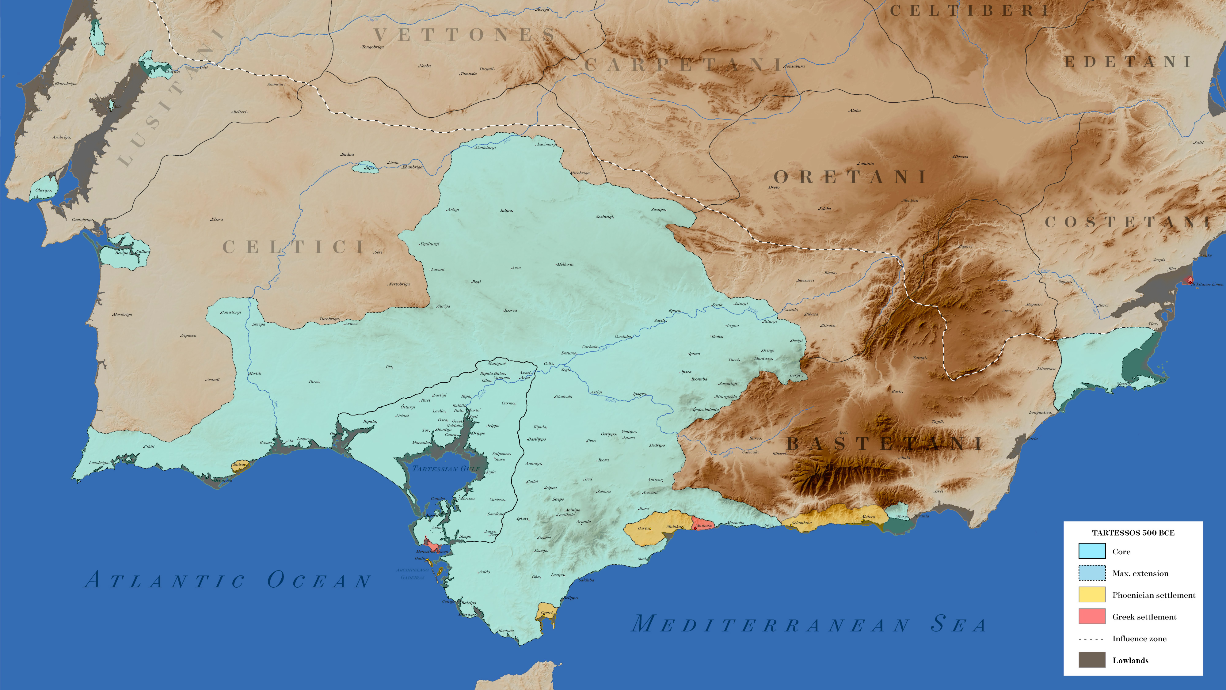 Tartessos extension in year 500 BCE